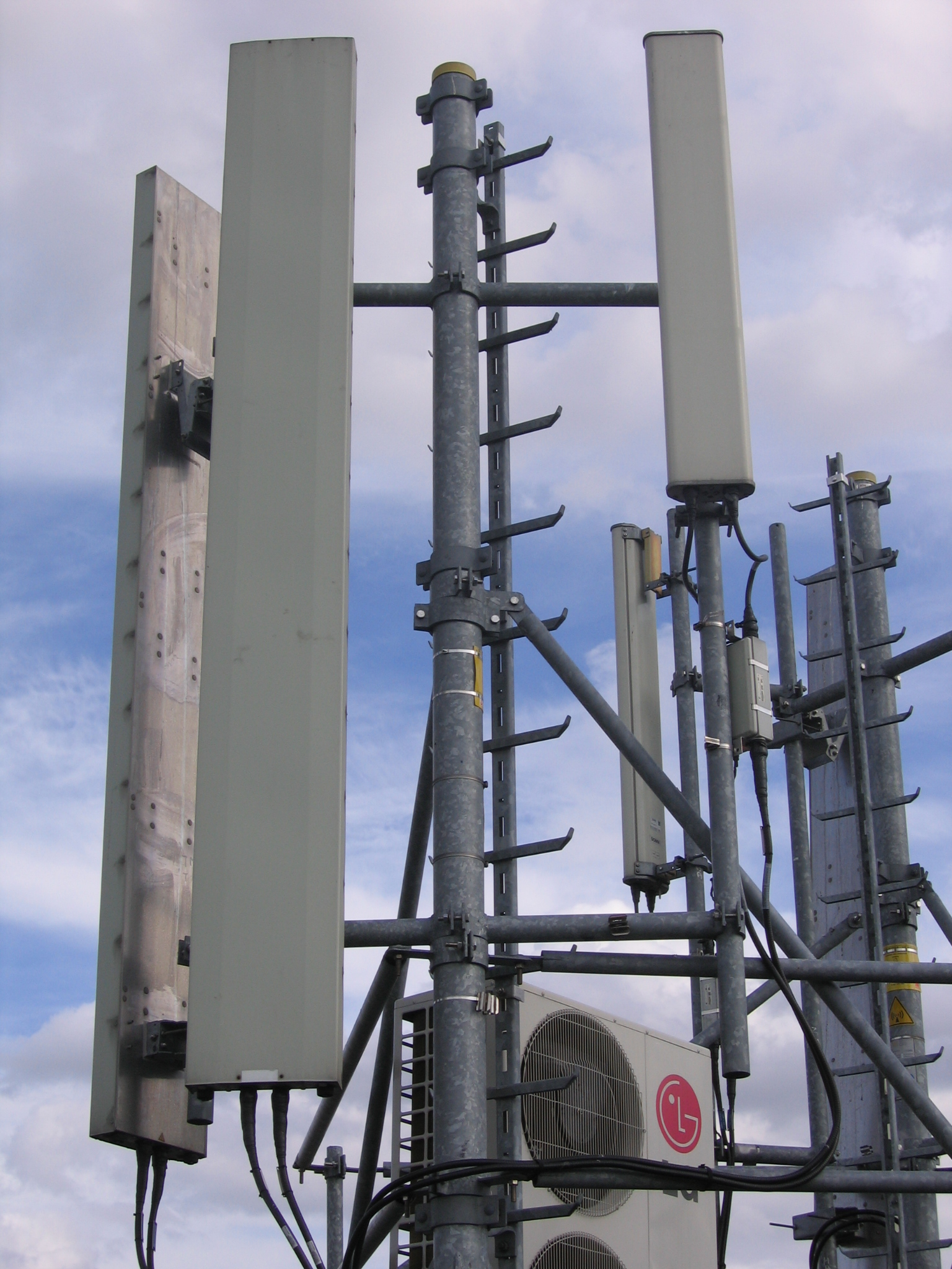 A GSM base station on a roof of Paris, France